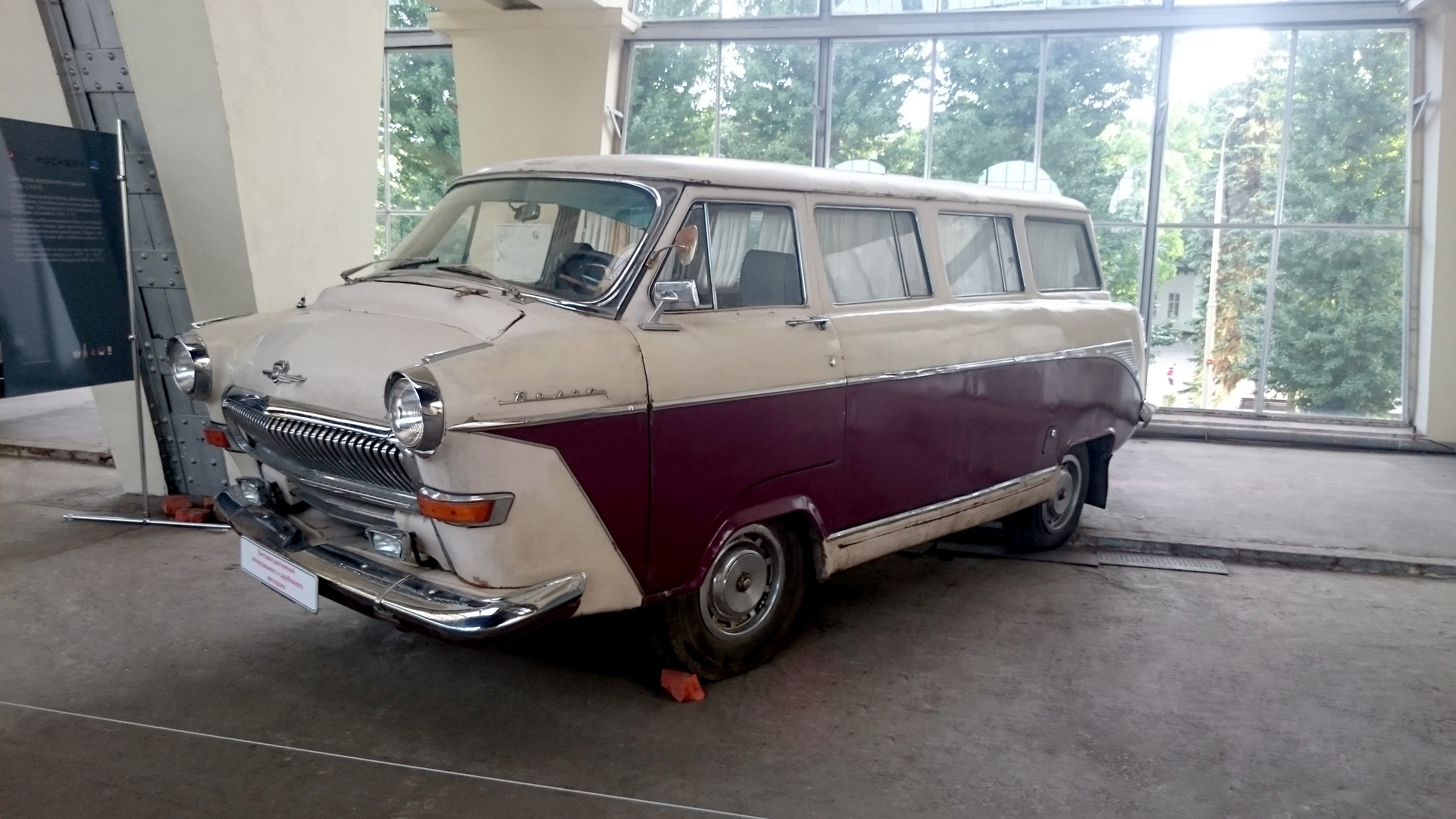 RAF-21A "Afalina" - minivan based on RAF-977D and GAZ-22.